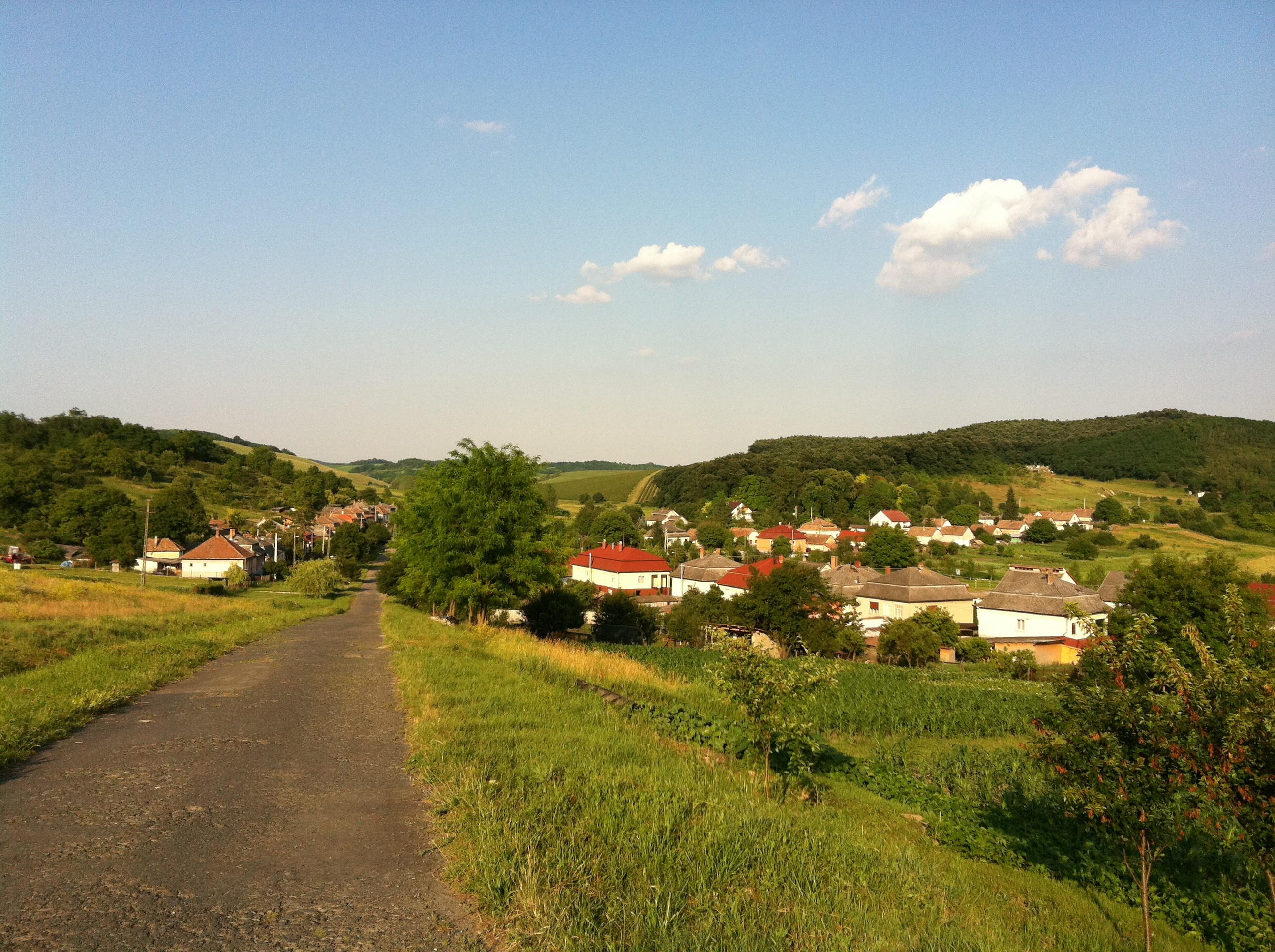 Nagykeresztúr, Hungary. View from Kiskeresztúr.